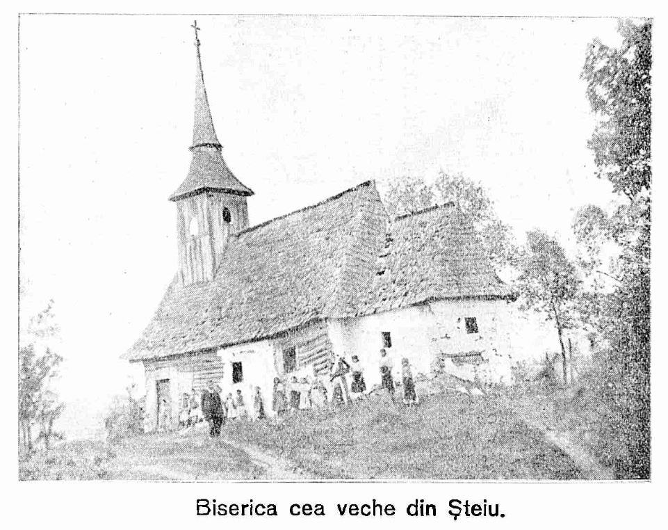 Wooden church in Ștei, Bihor county, Romania. No longer extant.